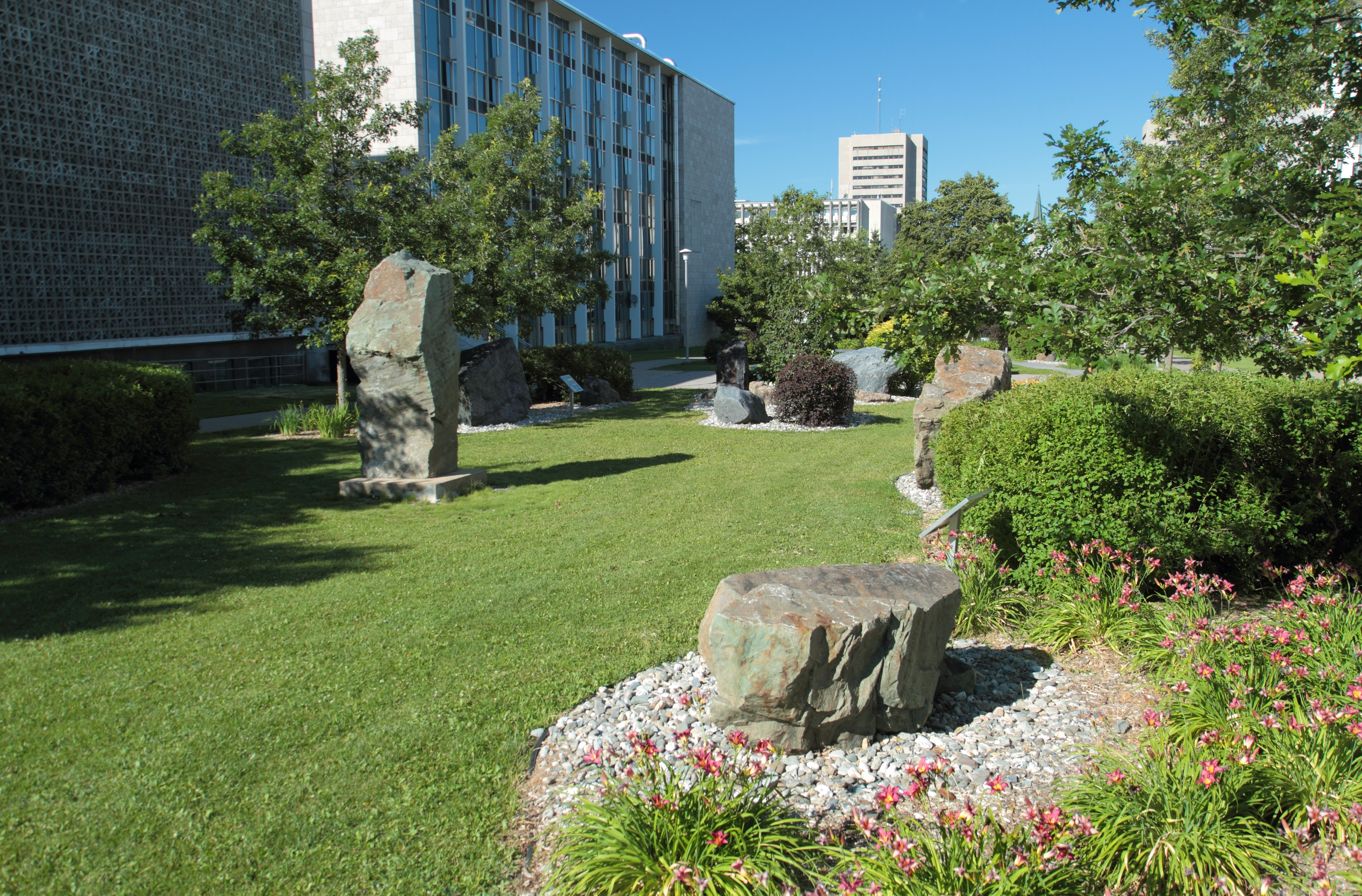 "Geology garden" of Laval University, Quebec, Canada